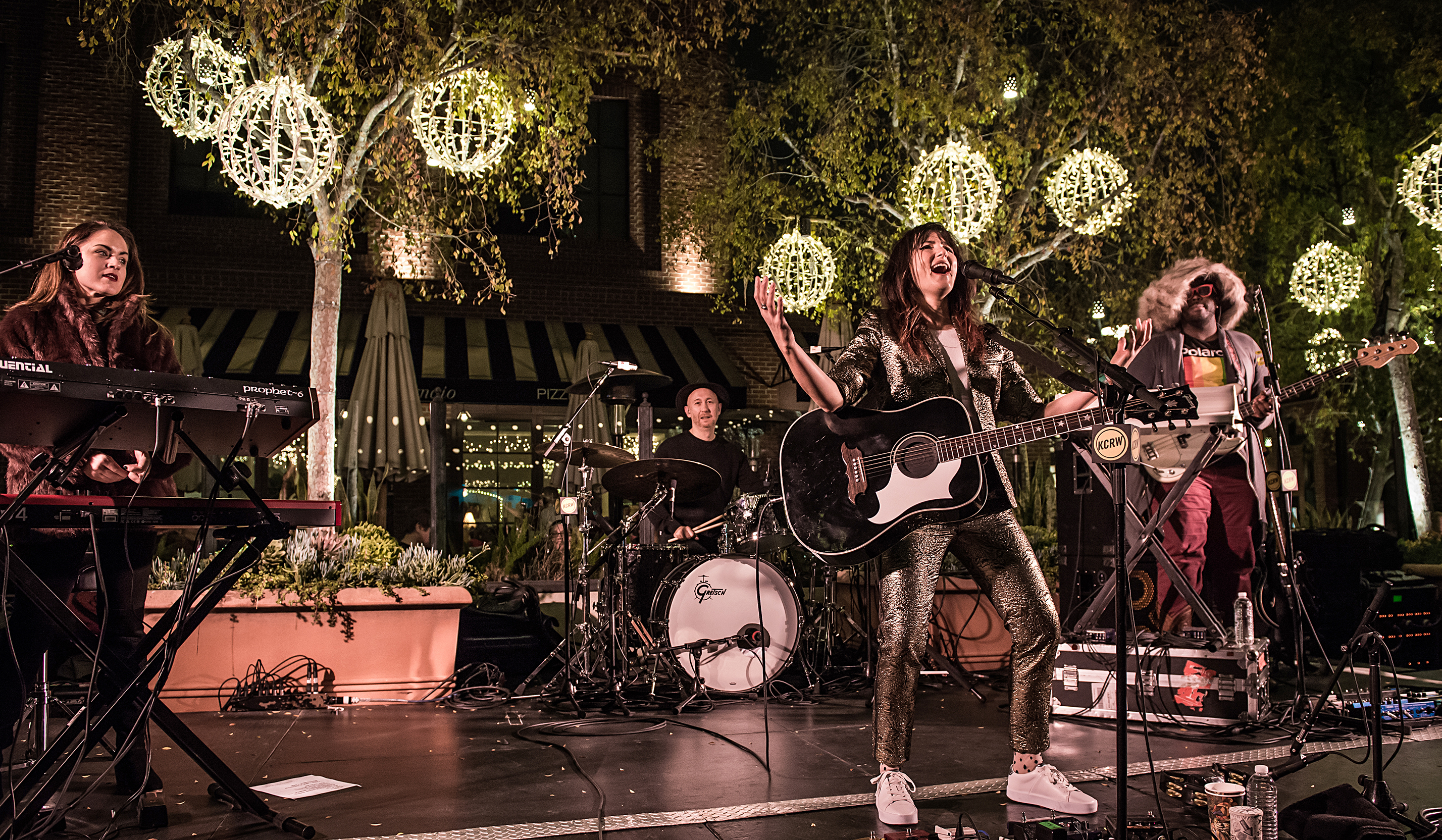 KT Tunstall at One Colorado Old Pasadena